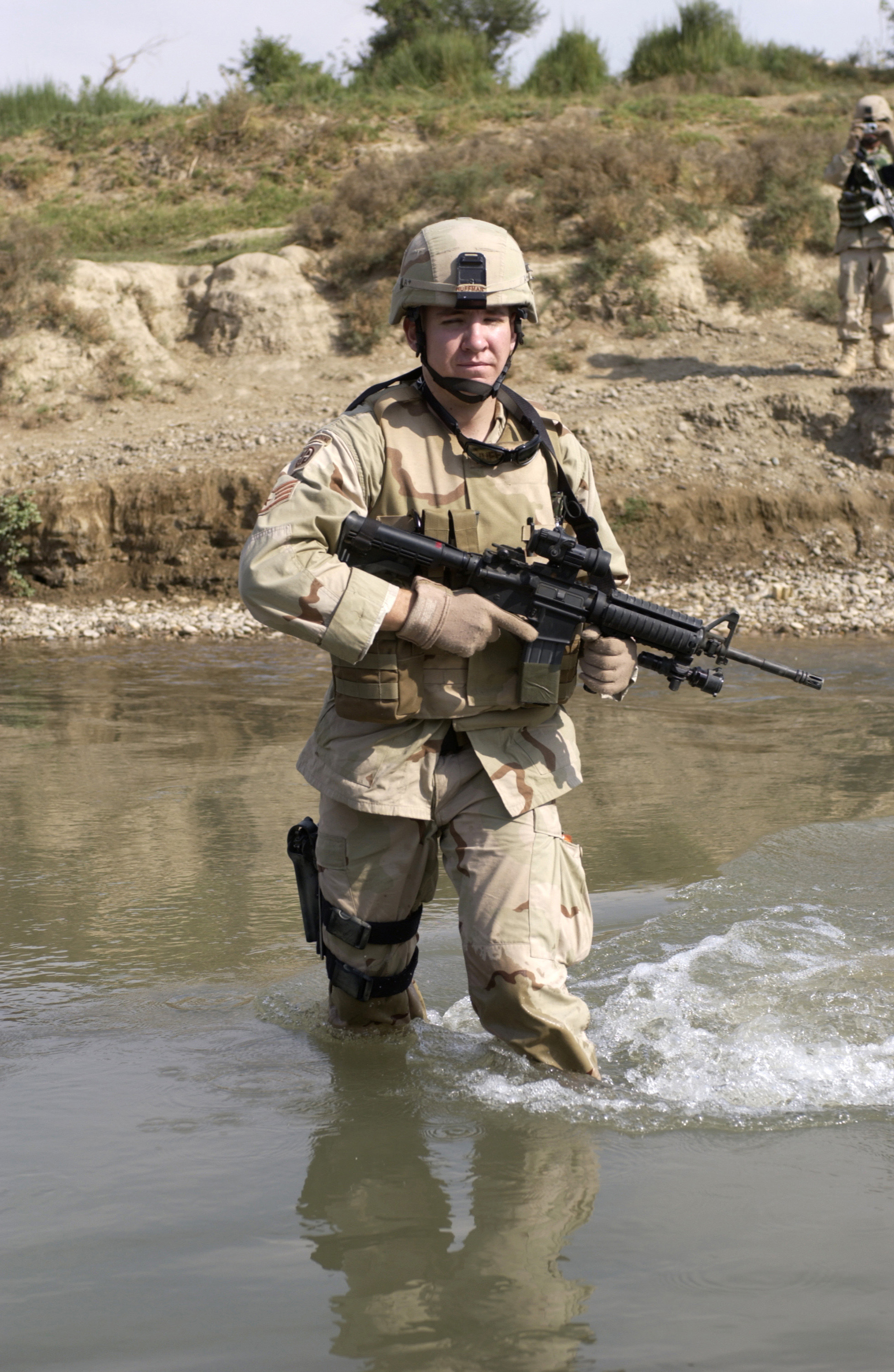 Air Force Staff Sgt. Michael Huffman crosses the Tigris River outside of Ad Dwr, Iraq, on Nov. 11, 2004. Huffman is a Tactical Air Control Party member from Detachment 1, 2nd Air Support Operations Squadron attached to 1st Battalion, 4th Cavalry, 1st Infantry Division. Tactical air control party members and members of Team 3, Bravo Company, 426th Civil Affairs are checking on the progress of schools civil affairs contracted to be built.